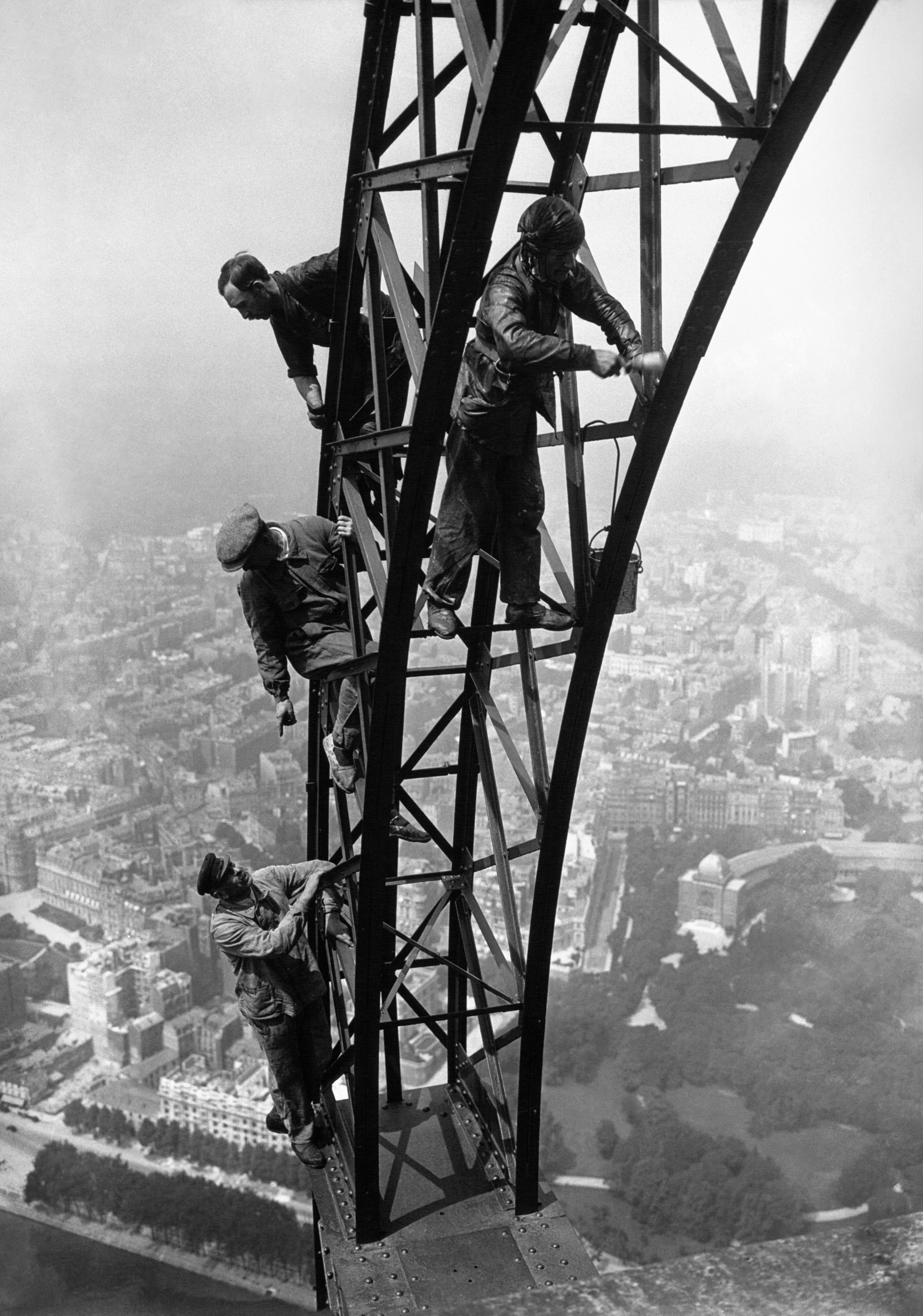 Repainting the Eiffel Tower in 1924.